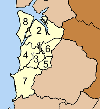 Map of Takua Pha district, Phang Nga province, Thailand, with the communes (tambon) numbered. Takua Pa (ตะกั่วป่า) Bang Nai Si (บางนายสี) Bang Sai (บางไทร) Bang Muang (บางม่วง) Tam Tua (ตำตัว) Khok Khian (โคกเคียน) Khuekkhak (คึกคัก) Ko Kho Khao (เกาะคอเขา)